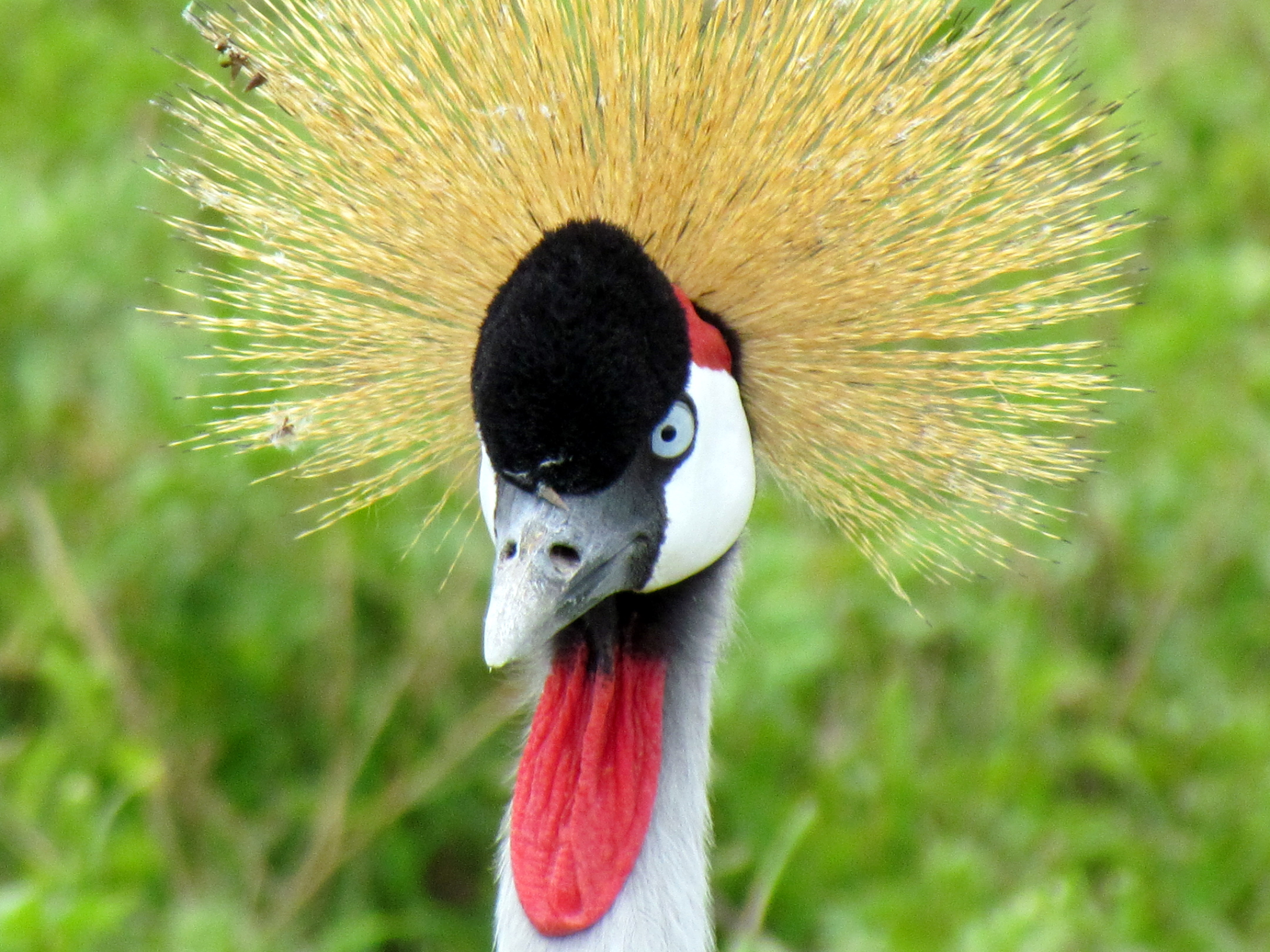 Grey Crowned Crane (Balearica regulorum) - Ngorongoro Conservation Area - Tanzania, Africa